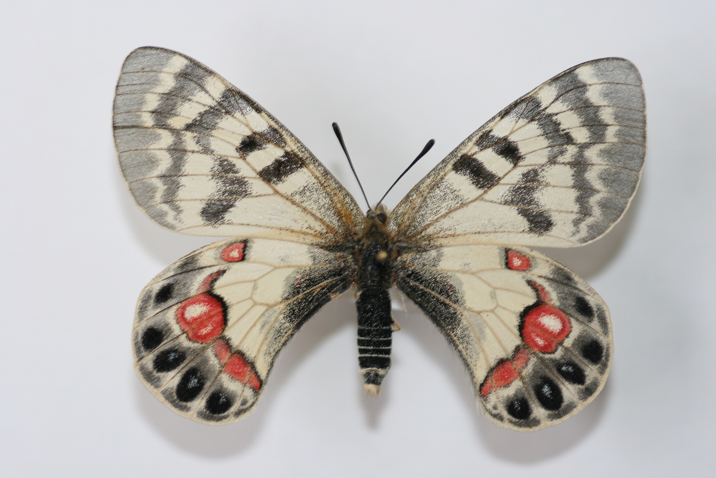 Parnassius charltonius aenigma female aberration. Upperside. Photo by Felix Stumpe